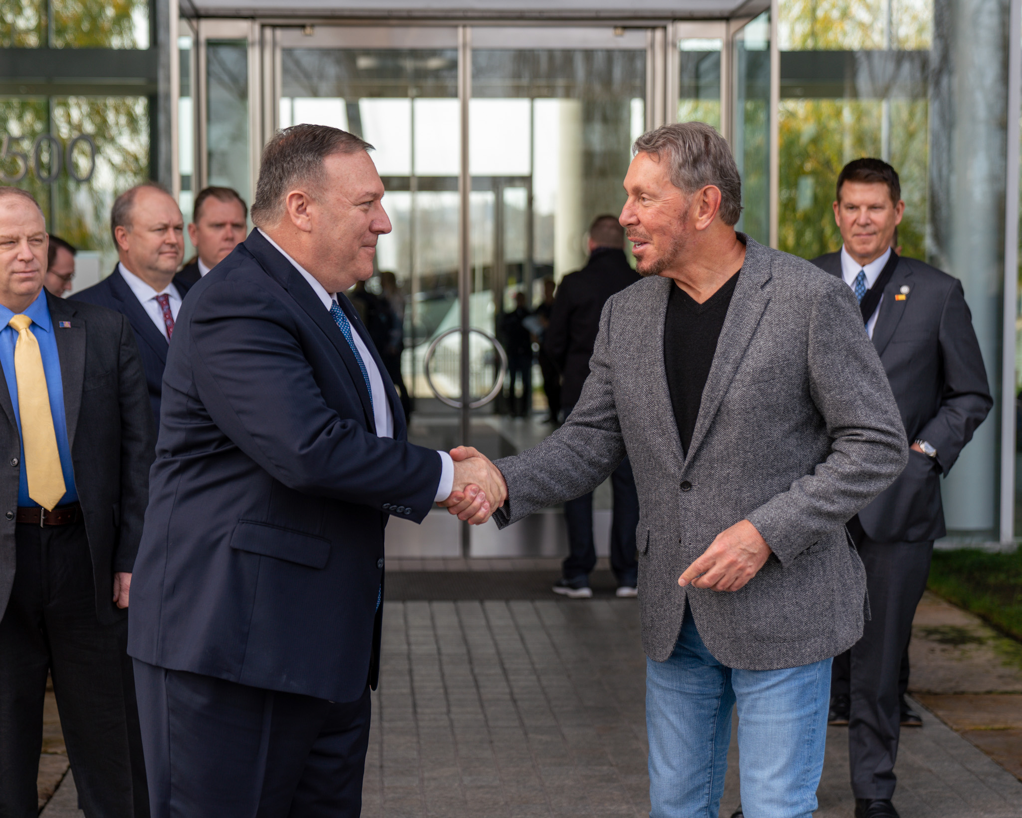 Secretary of State Michael R. Pompeo meets with the Oracle Leadership Team, in Redwood City, California on January 15, 2020. [State Department photo by Ron Przysucha/ Public Domain]